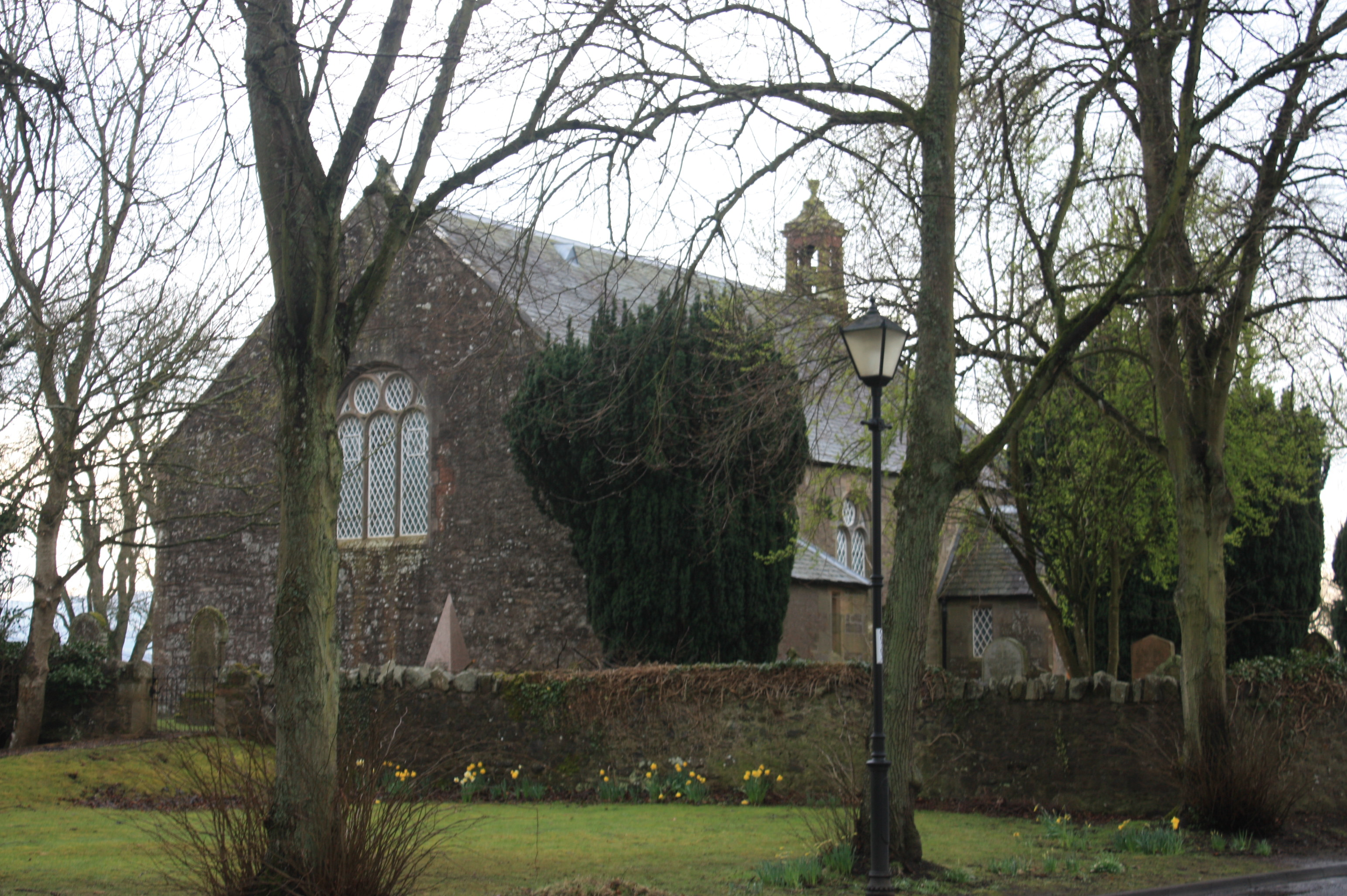 Forteviot parish church, Forteviot, Perthshire, seen from the northeast